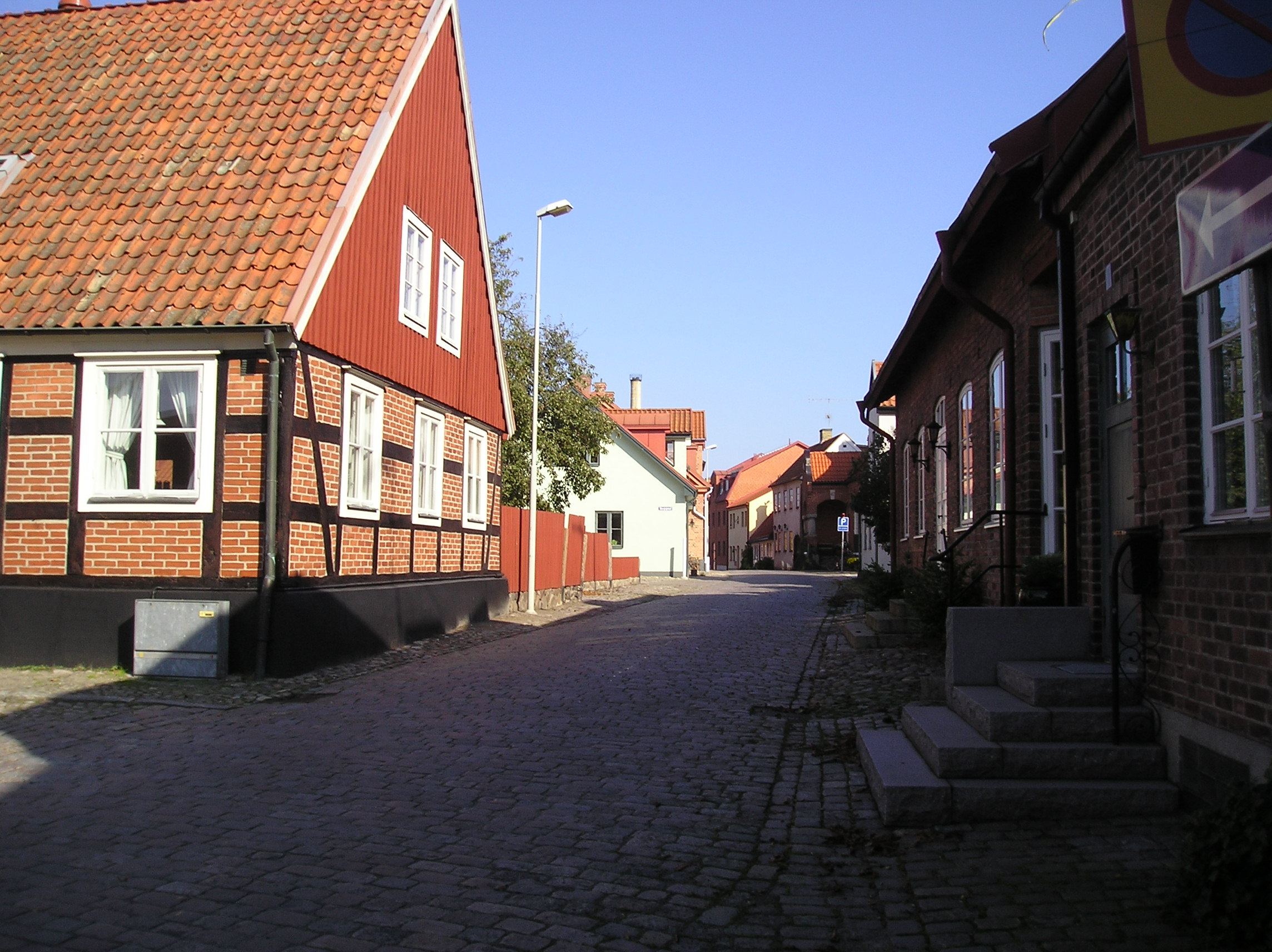 Åhus street with houses